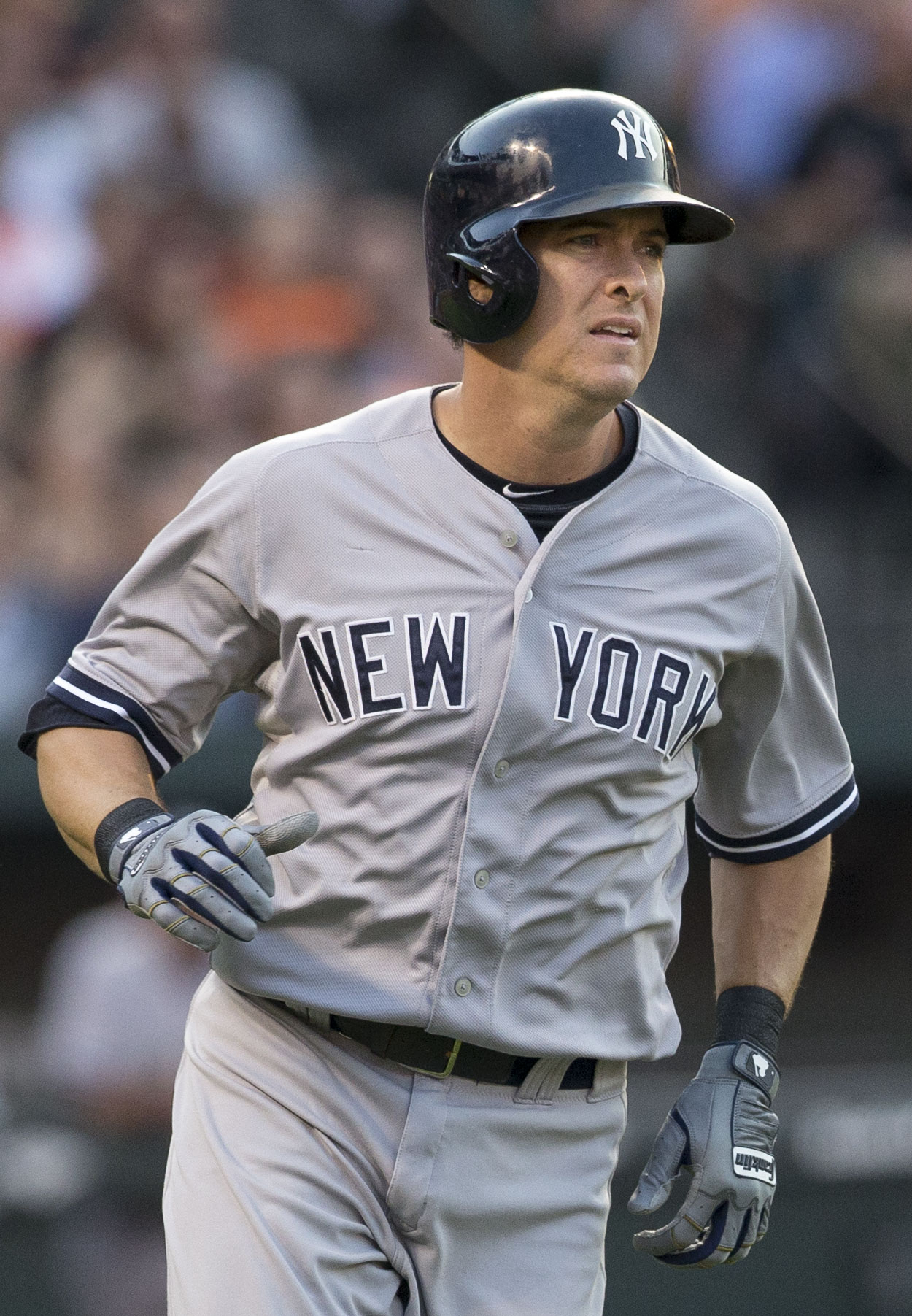 Kelly Johnson